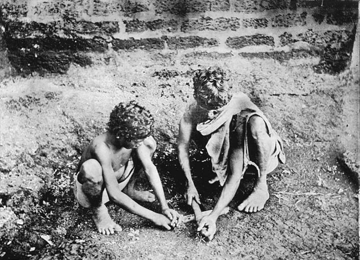 A Paniyans (Paniyas/Paniyars) making fire, from Edgar Thurston's Castes and Tribes of Southern India, Vol. 6 of 7 (1909).